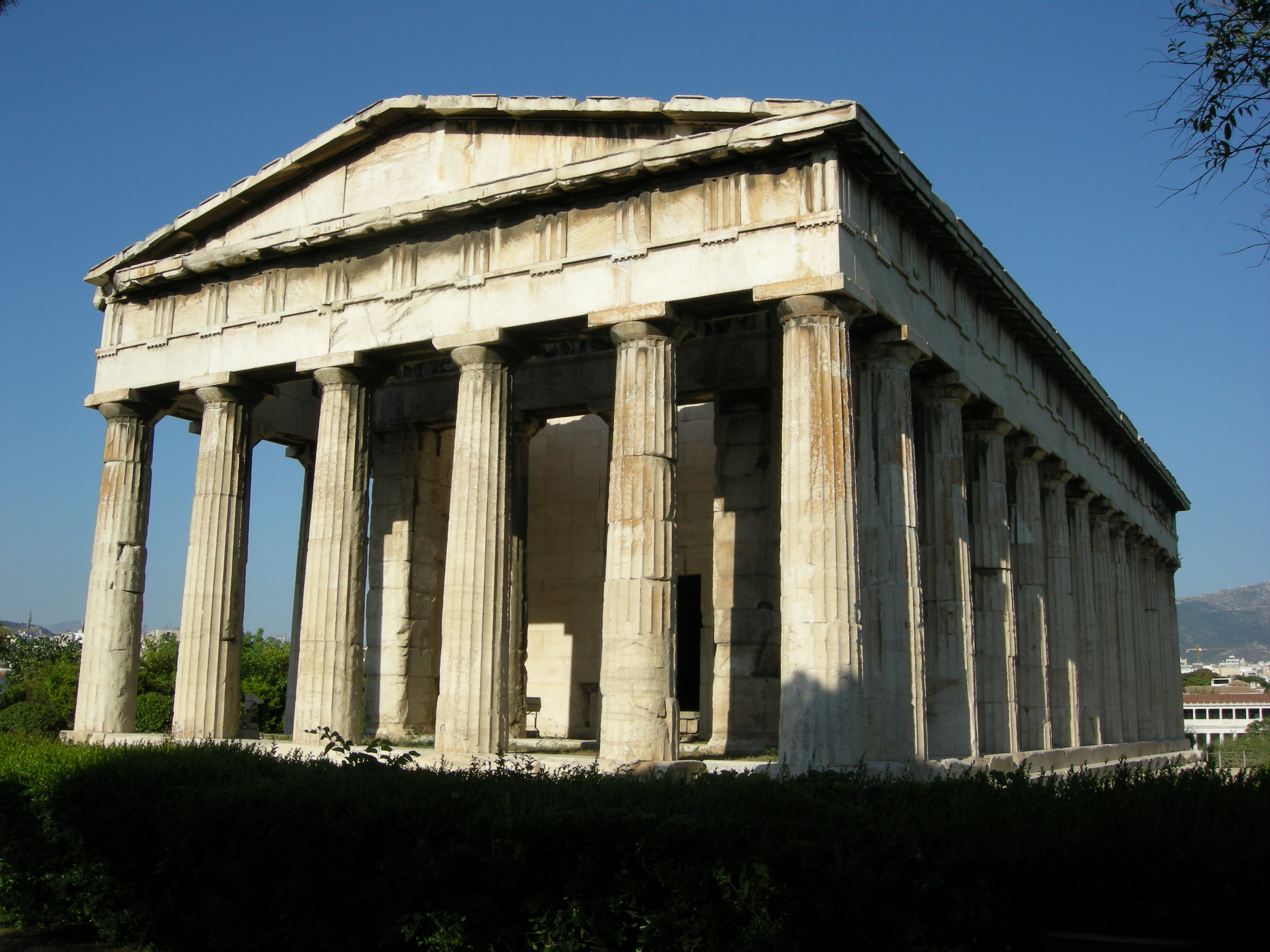 Temple of Hephaestus in Athens, Greece